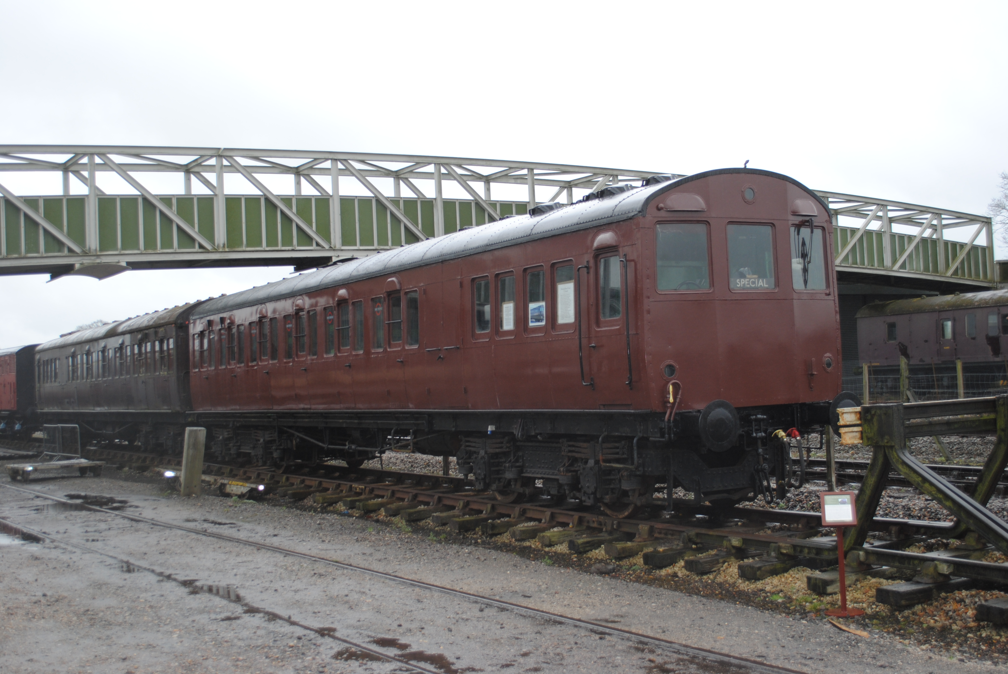 Two preserved carriages of a Metropolitan Rly T stock unit.